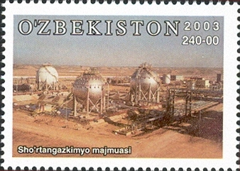 Stamps of Uzbekistan, 2003